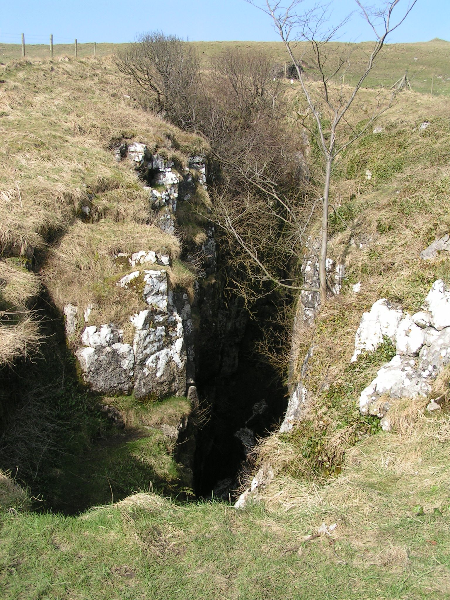 Eldon Hole. Deep pothole on the slopes of Eldon Hill near Castleton. According to the booklet Caves and Karst of the Peak District (BCRA Cave Studies Series Number 3): "The Hole forms a gaping chasm, 55m deep on the south flank of Eldon Hill. A tight, loose drop at the bottom leads into a large chamber and an 18th-century account suggests that there is a second drop in the floor to an underground river but it has long been concealed by boulders thrown down." for more information.